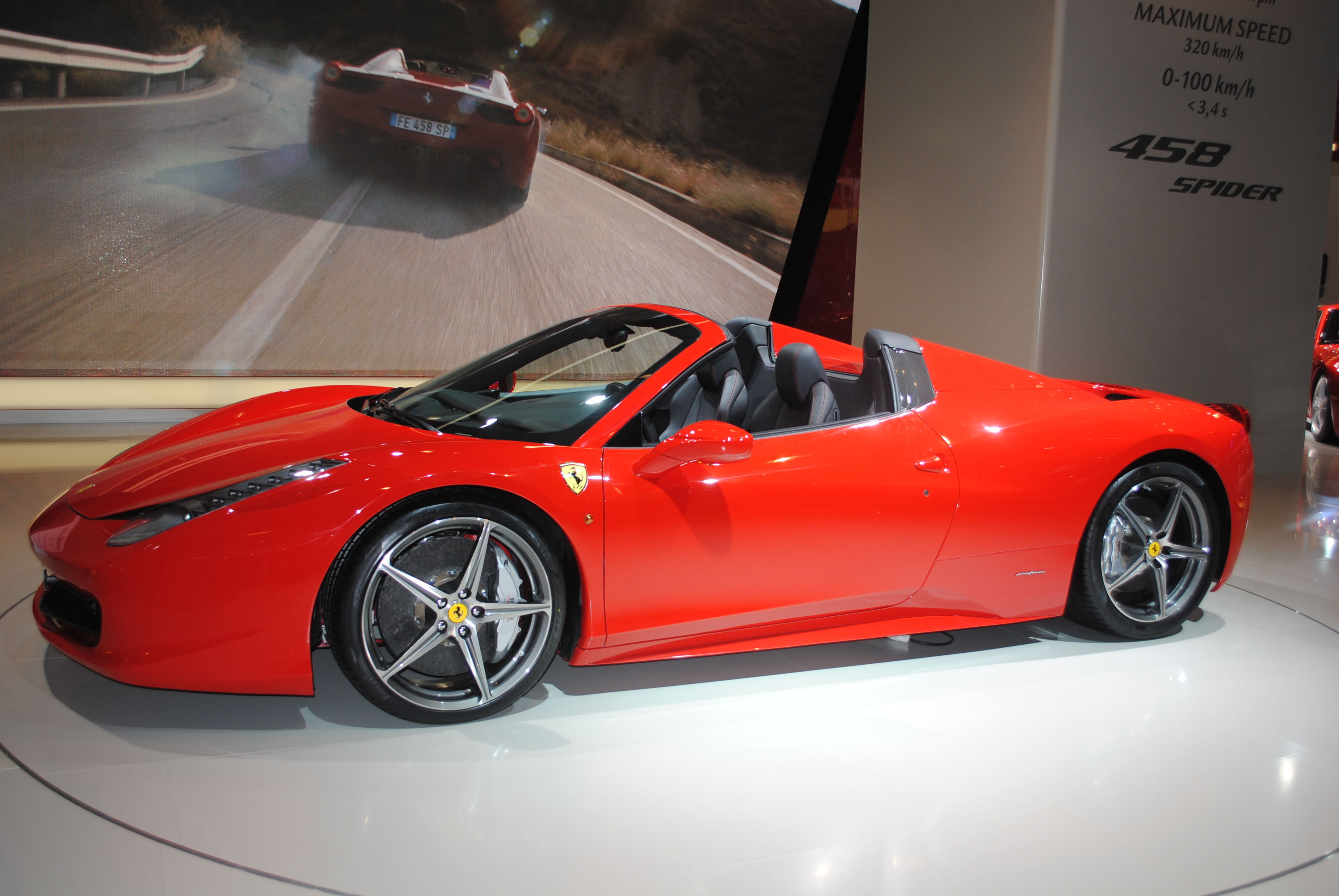 More photos and info